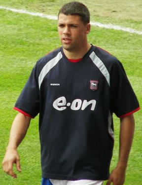 Jonathan Walters. Image cropped from original at flickr.